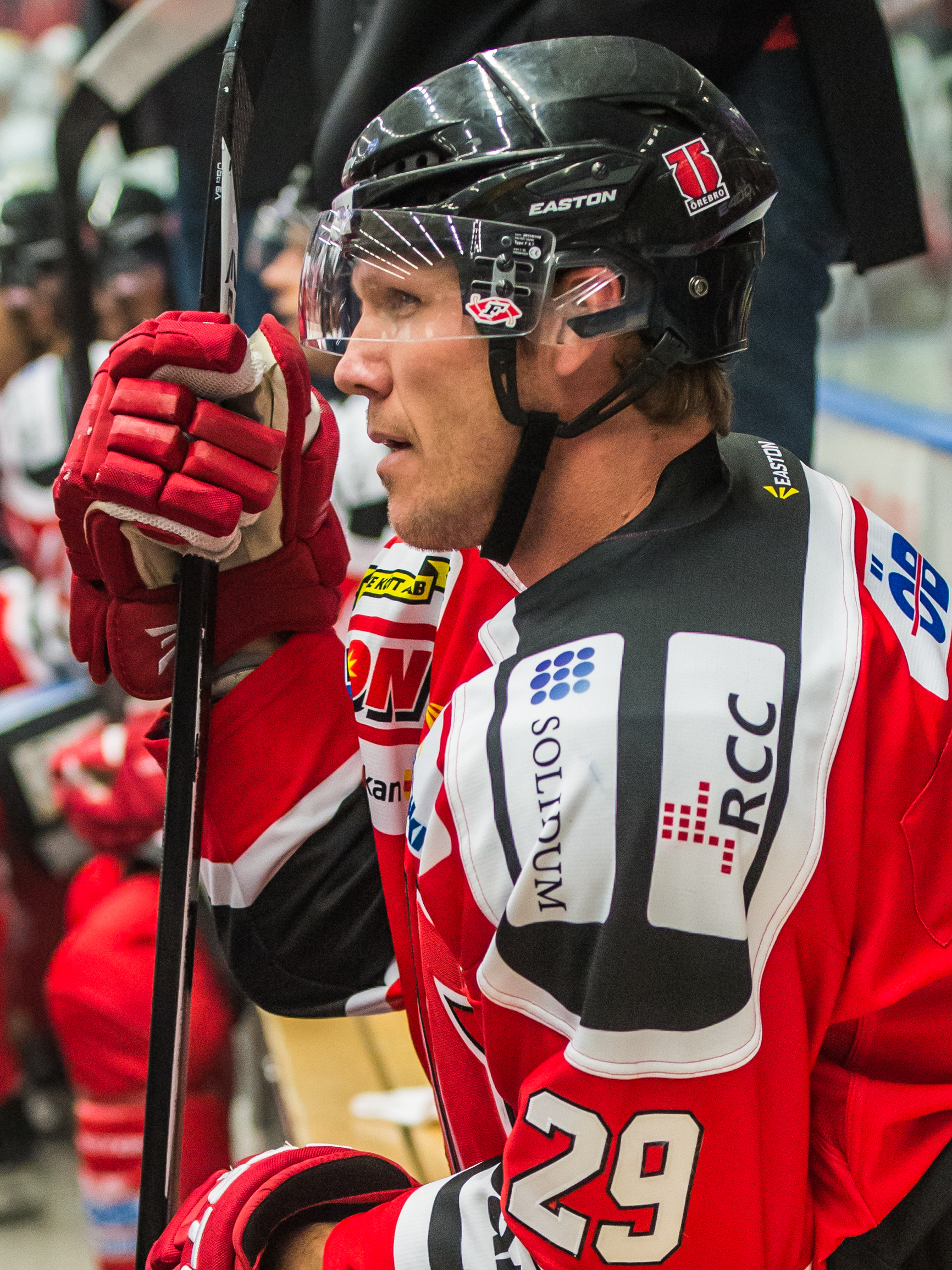 Christoffer Norgren playing for Örebro HK in SHL (Sweden's highest league) against MODO Hockey in Behrn Arena 2013-10-05.